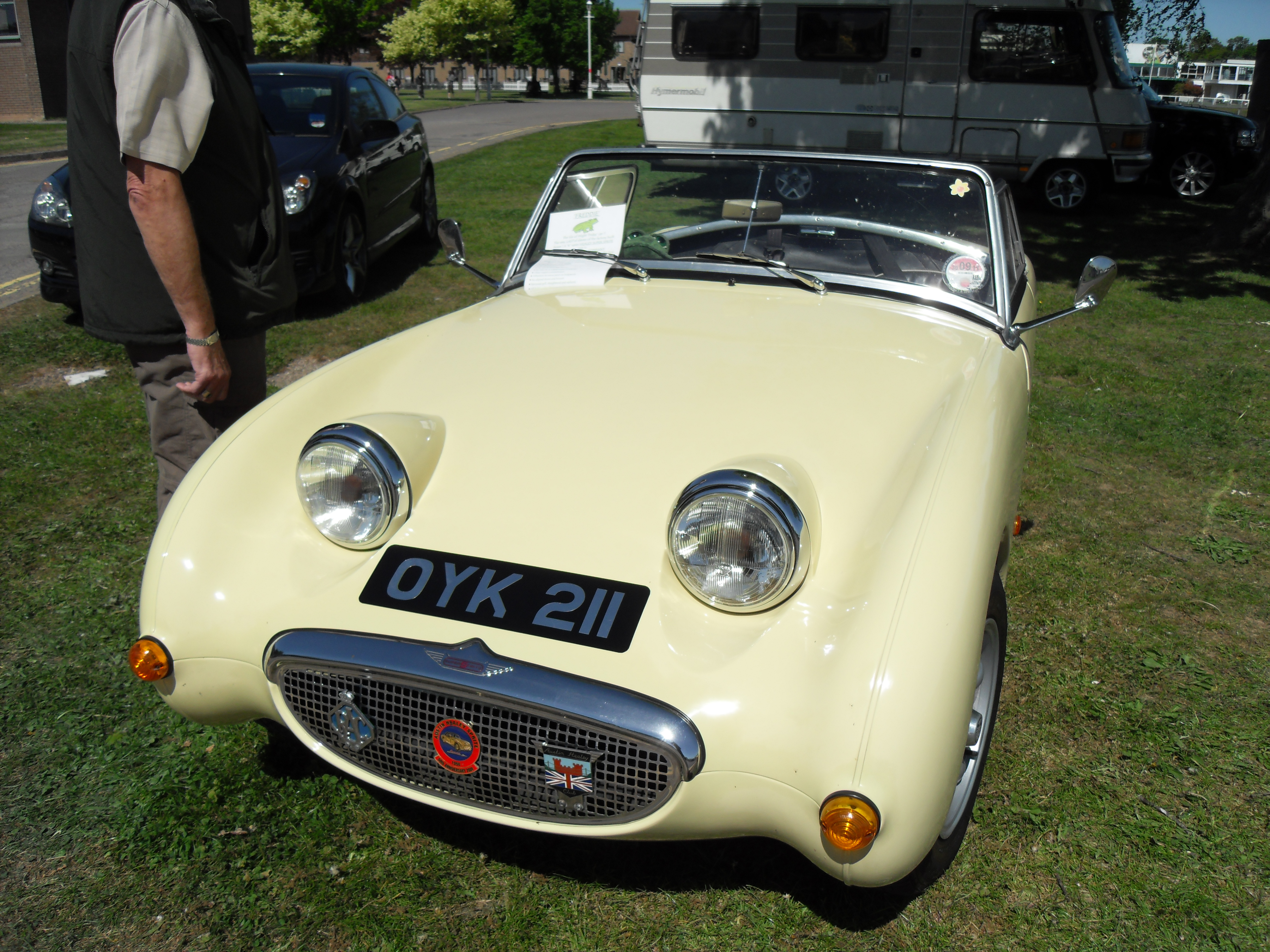 National Kit Car Show Stoneleigh 2011